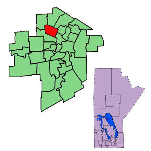 The 1999-2011 boundaries for the Burrows electoral district highlighted in red